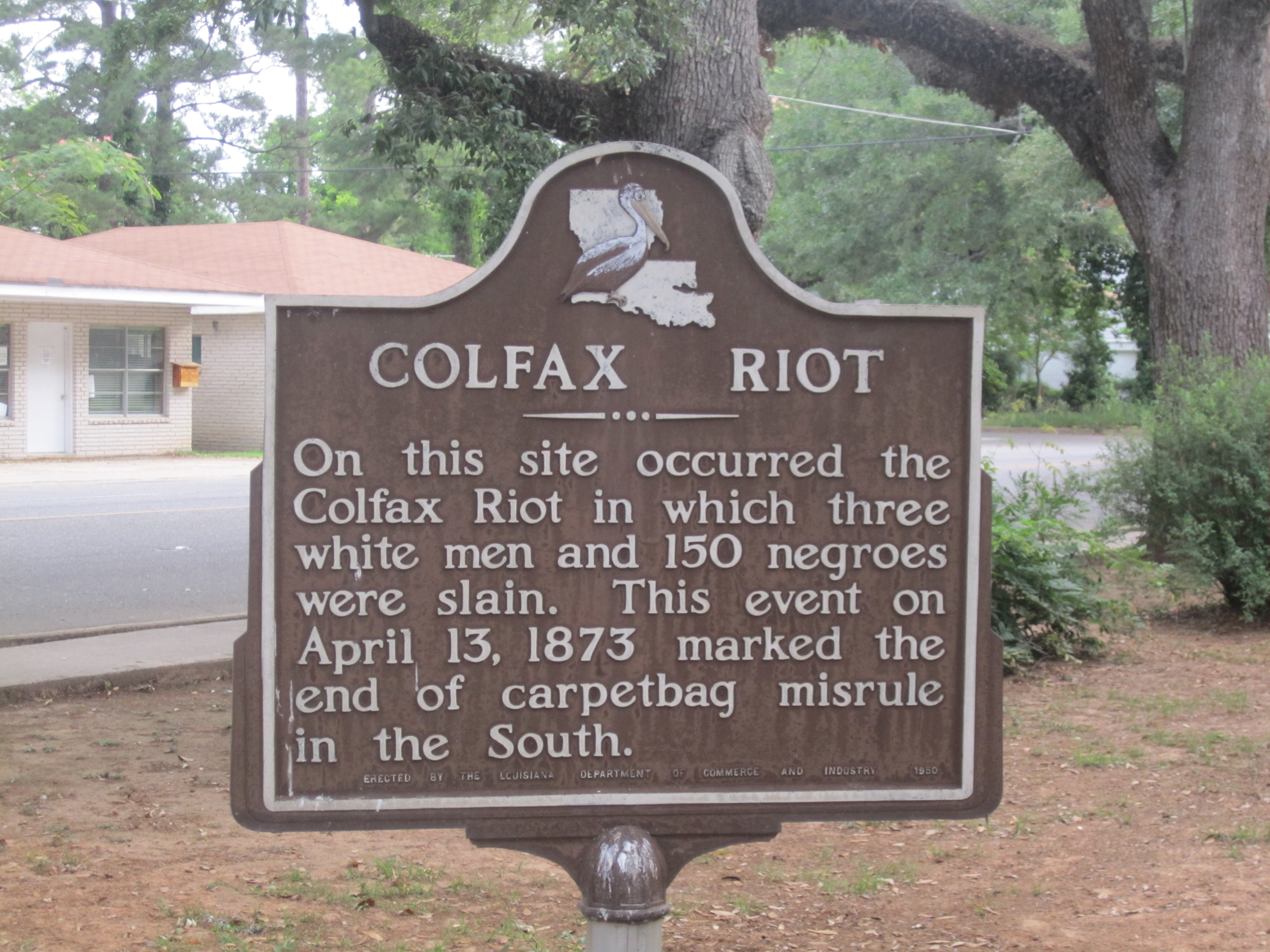 I took photo of historical marker in Colfax, LA, of Colfax Riot of 1873, using Canon camera. The "Dunning School" text on this old marker would be considered quite biased and propagandistic by today's historical standards...